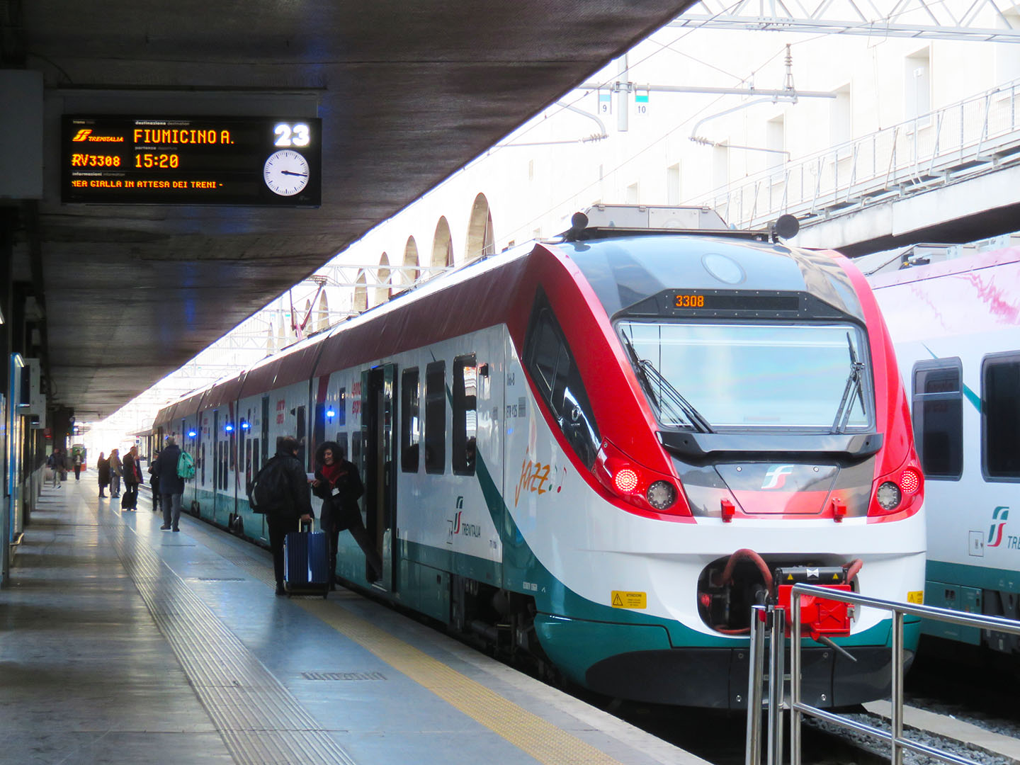 Exterior of Leonardo Express train